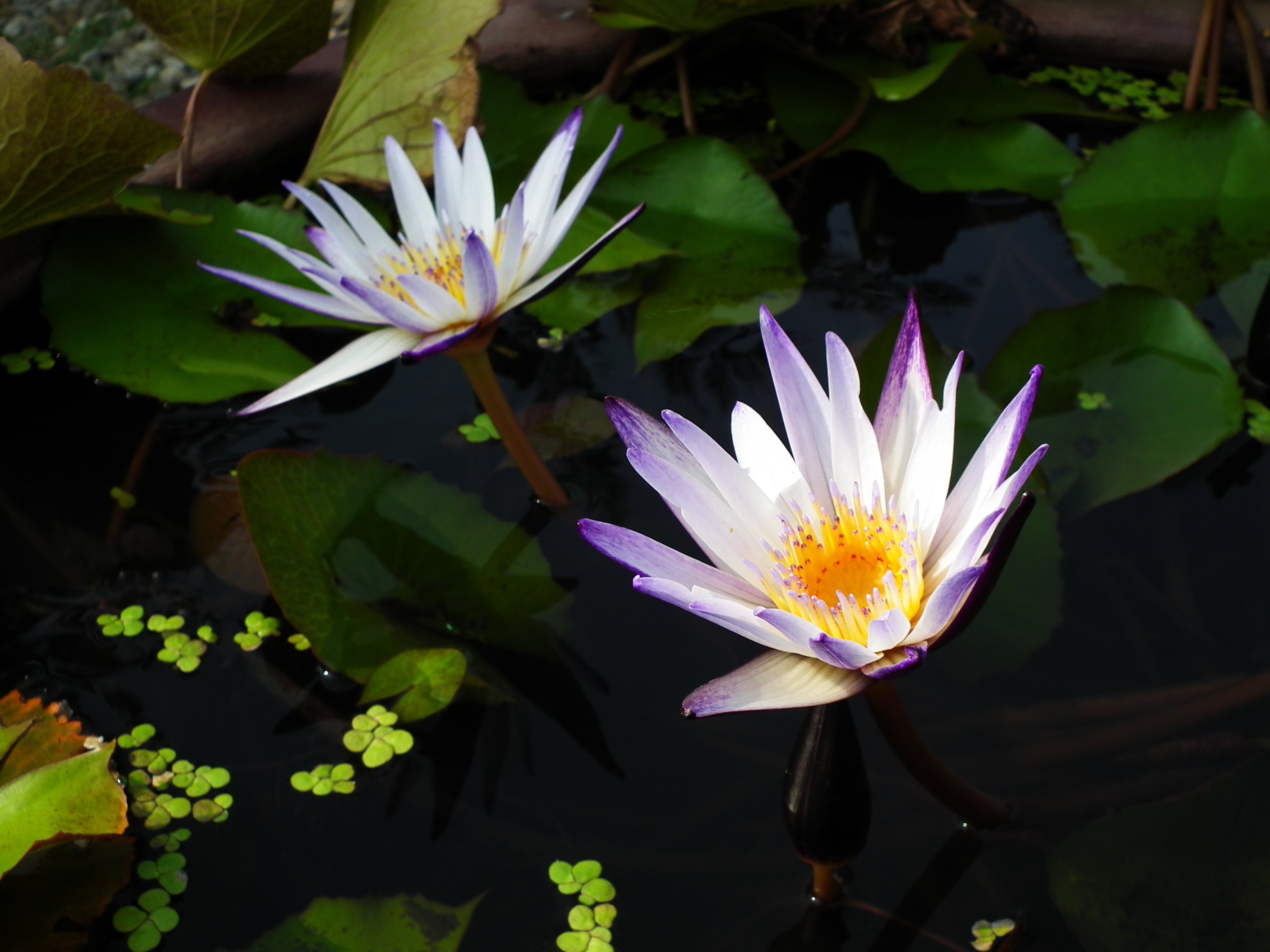 Nymphaea nouchali